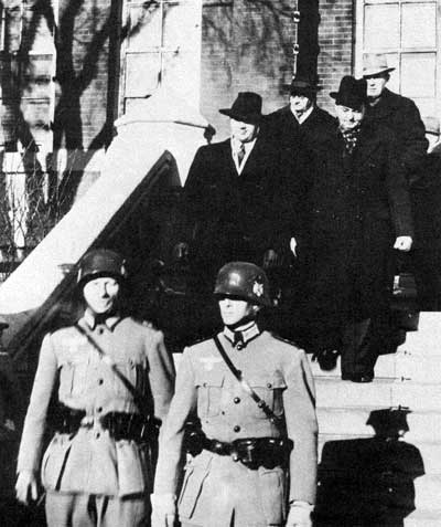 Arrest of city officials in Winnipeg during If Day